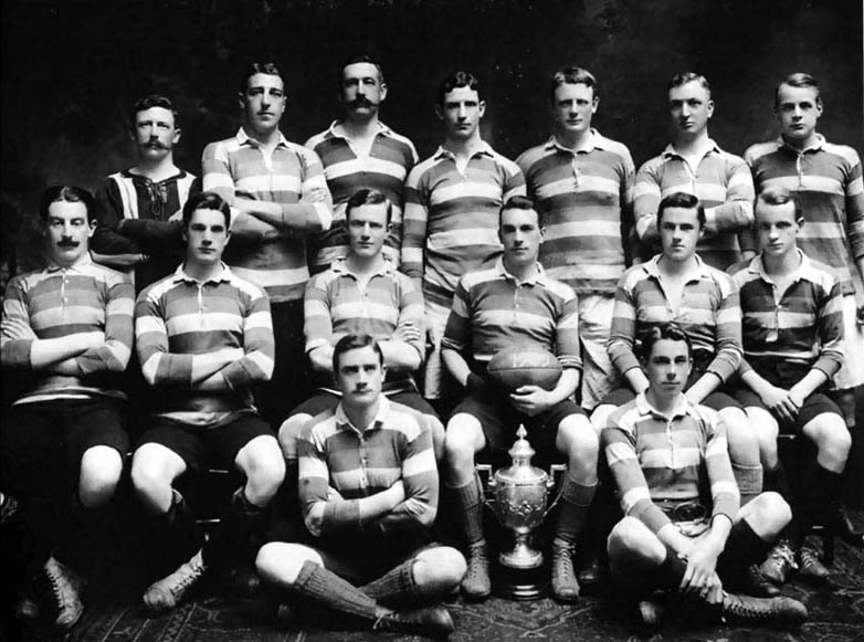 The 1909 rugby union team of Belgrano Athletic Club, which would win its second championship one year later.